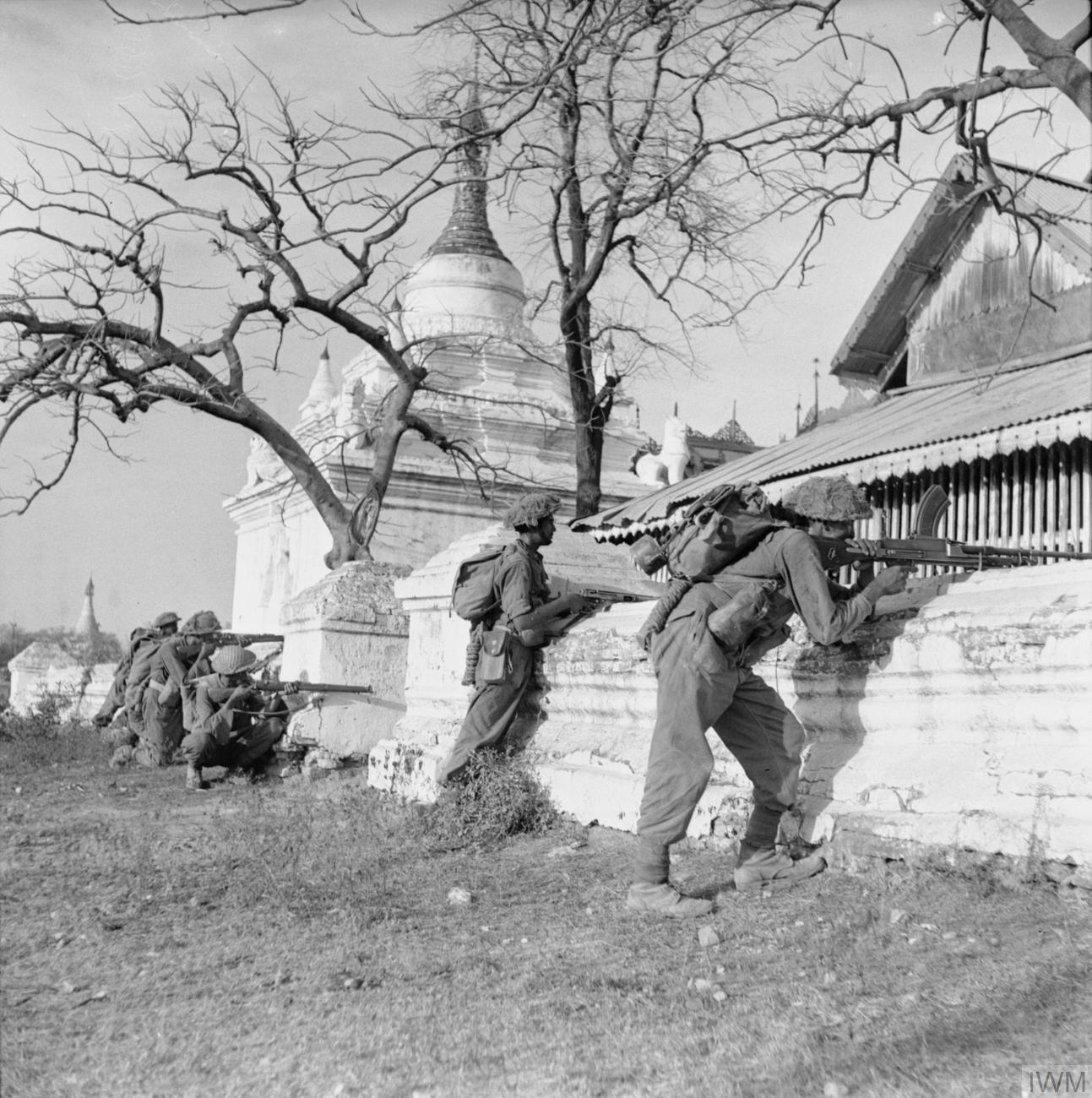 THE CAMPAIGN IN BURMA, 1945, Among the pagodas on Mandalay Hill, historic heart of Burma's second city, Indian troops of 19th Division open fire on a Japanese strongpoint.